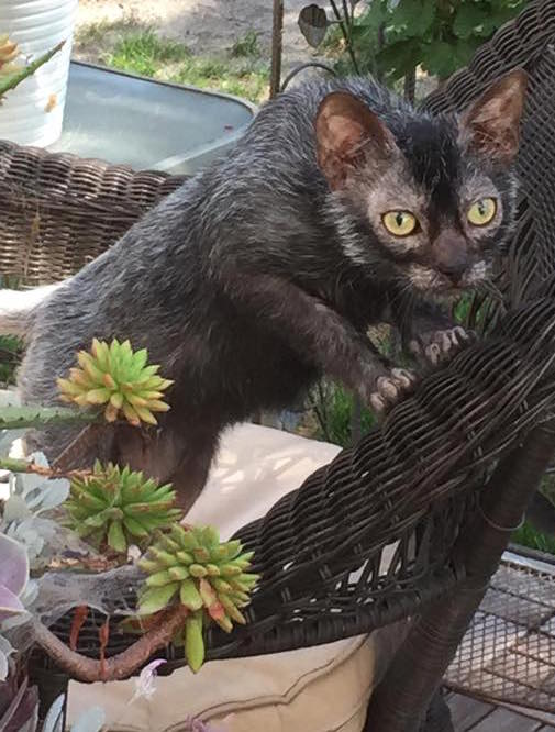 8-month-old male Lykoi